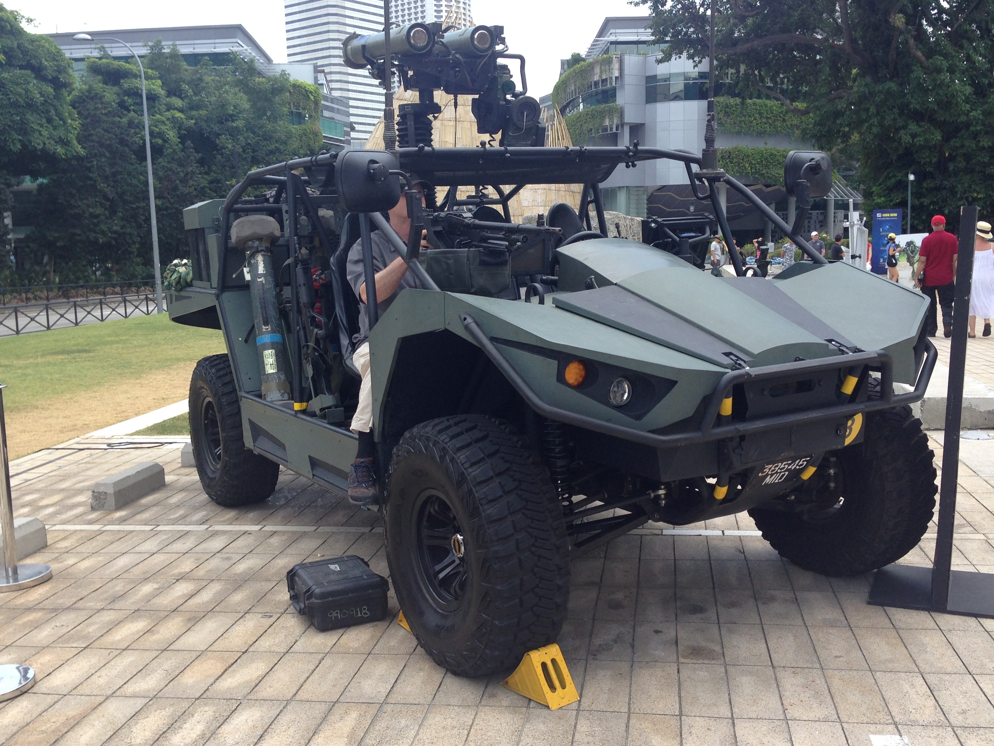 A Singapore Army Mark 2 Light Strike Vehicle on display at the National Museum of Singapore as part of an exhibition called Because You Played A Part: Total Defence 30: An Experiential Showcase from 15 to 23 February 2014, commemorating the 30th anniversary of Total Defence in Singapore.